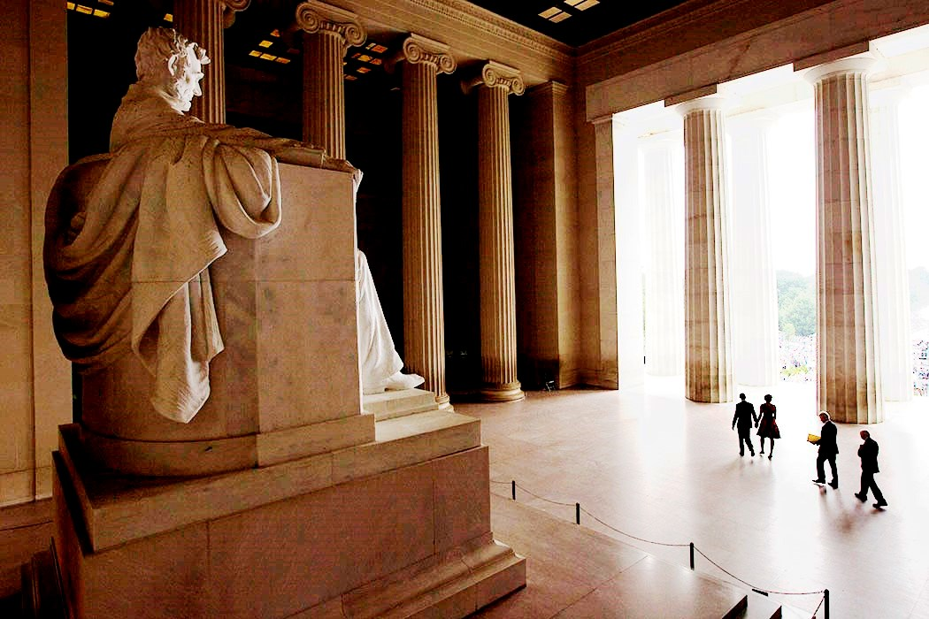 President Barack Obama, First Lady Michelle Obama, and former Presidents Jimmy Carter and Bill Clinton walk past the statue of President Lincoln to participate in the ceremony on the 50th anniversary of the historic March on Washington for Jobs and Freedom and Dr. Martin Luther King, Jr.'s "I Have a Dream" speech, at the Lincoln Memorial in Washington, D.C., Aug. 28, 2013. (Official White House Photo by Chuck Kennedy)